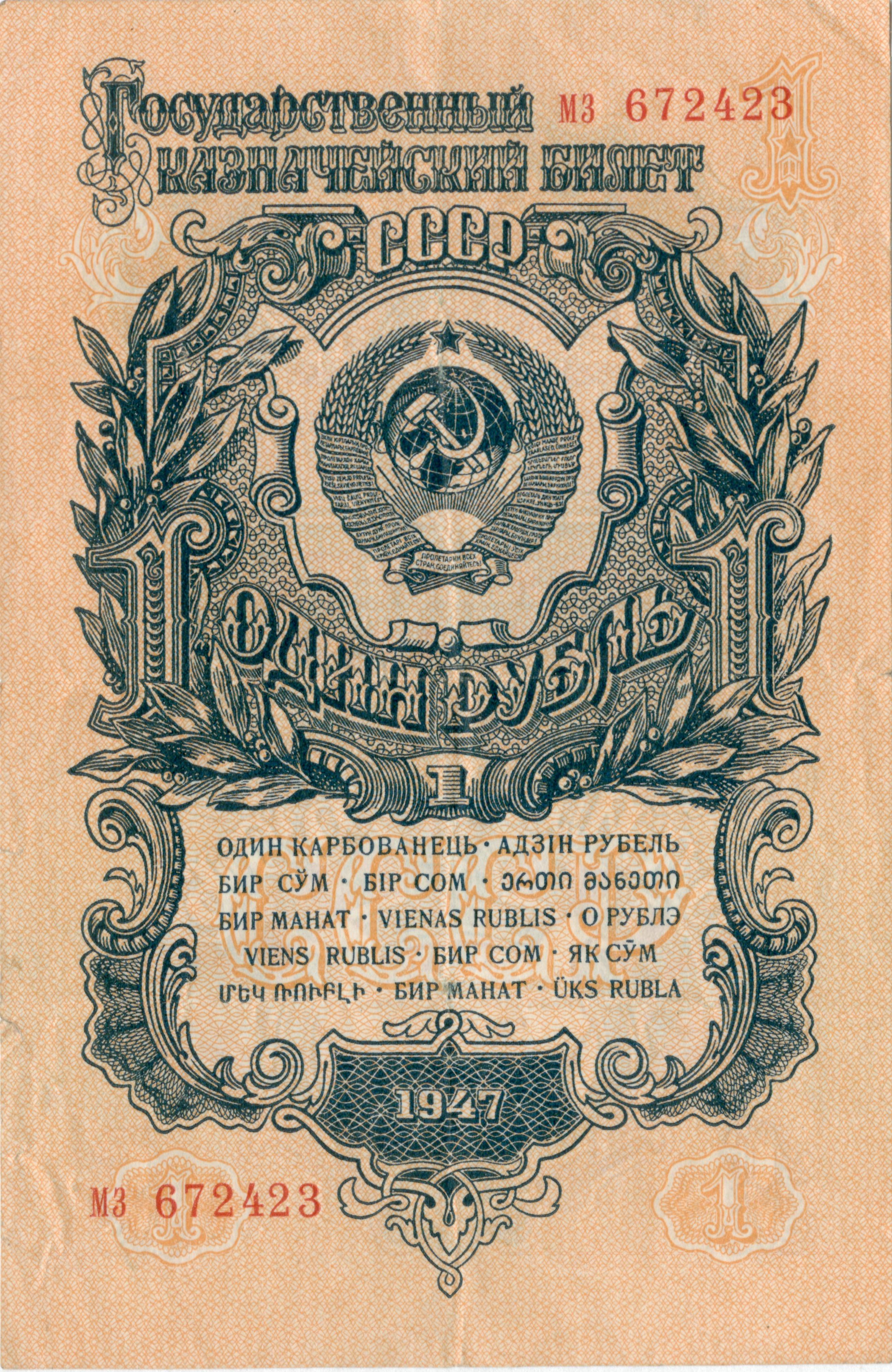 USSR banknote. 1 ruble. Version of 1947 year. Front